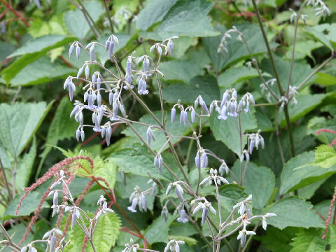 Clematis stans